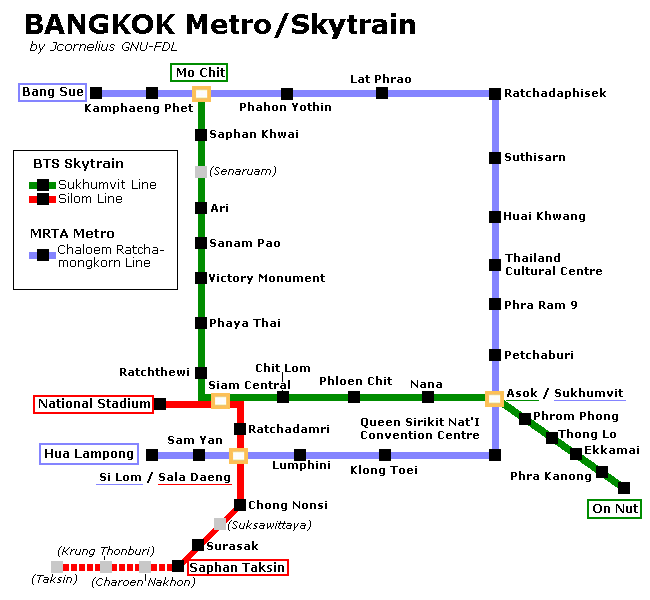 Map of the Bangkok subway system